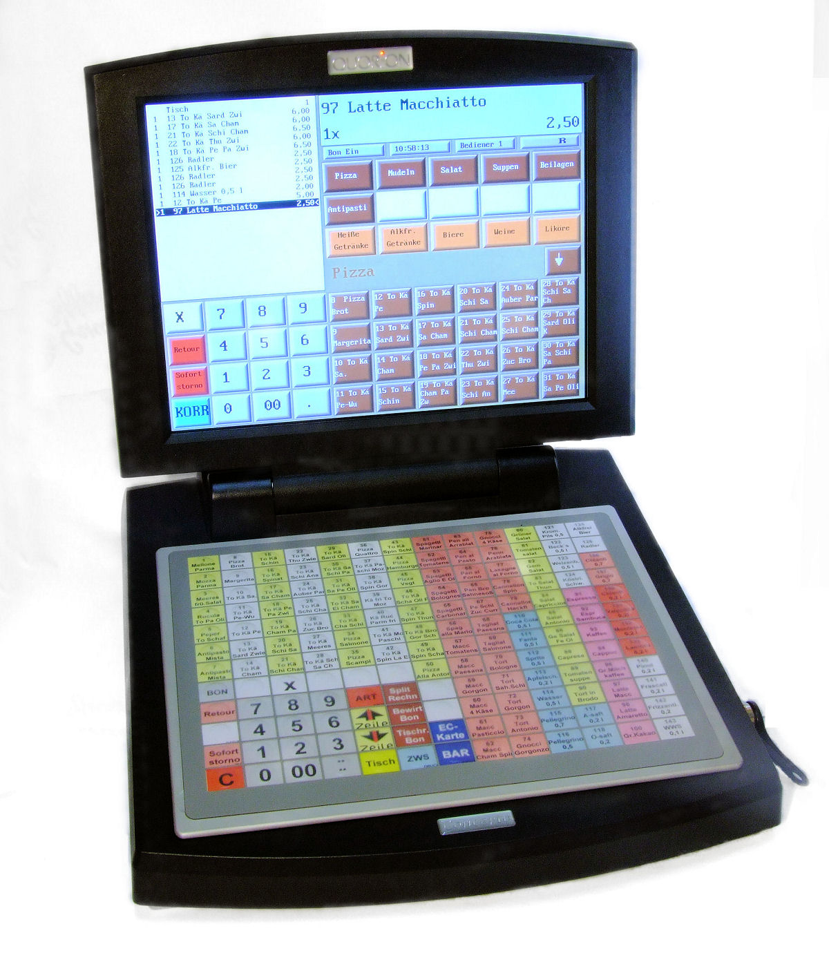 modern cashregister